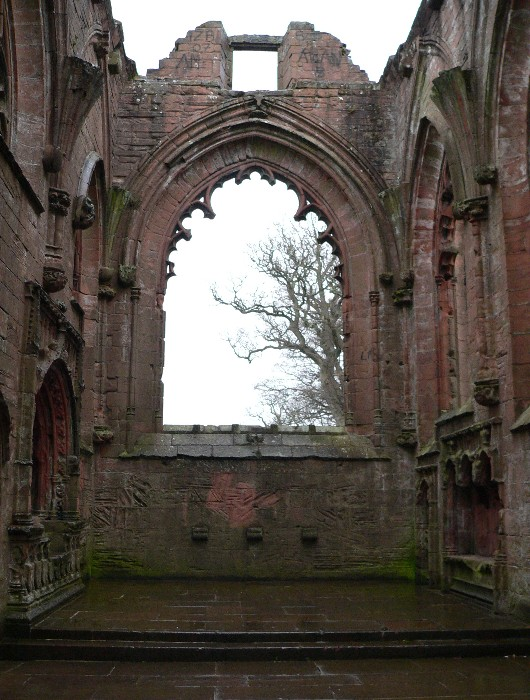 The choir of Lincluden Collegiate Church, Dumfriesshire, Scotland